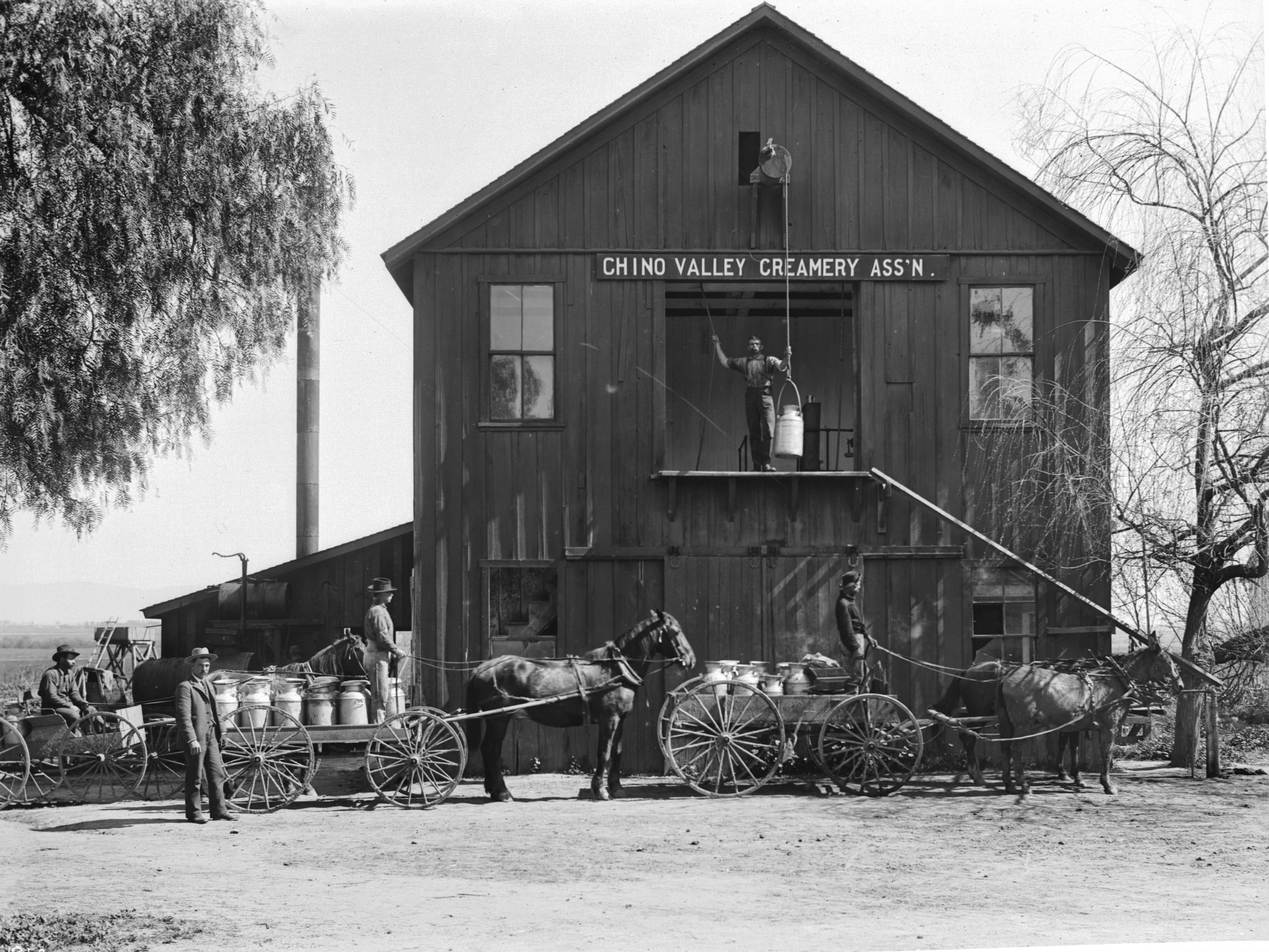 Chino Valley Creamery, ca.1900 Photograph of the Chino Valley Creamery Association, ca.1900. A man stands on an elevated platform opening into the two-story wooden building, with a pulley which lifts milk cans up from the three horse-drawn milk wagons waiting below. A smokestack is visible at left. A couple of large trees straddle the image. Call number: CHS-1950 Filename: CHS-1950 Coverage date: circa 1900 Part of collection: California Historical Society Collection, 1860-1960 Format: glass plate negatives Type: images Geographic subject (city or populated place): Chino Repository name: USC Libraries Special Collections Accession number: 1950 Microfiche number: 1-78-7 Archival file: chs_Volume63/CHS-1950.tiff Part of subcollection: Title Insurance and Trust, and C.C. Pierce Photography Collection, 1860-1960 Repository address: Doheny Memorial Library, Los Angeles, CA 90089-0189 Geographic subject (country): USA Format (aacr2): 1 photograph : glass photonegative, b&w ; 17 x 22 cm. Rights: Digitally reproduced by the USC Digital Library; From the California Historical Society Collection at the University of Southern California Subject (adlf): industrial sites Project: USC Repository Contributing entity: California Historical Society Date created: circa 1900 Publisher (of the digital version): University of Southern California. Libraries Format (aat): photographs Geographic subject (state): California Subject (file heading): San Bernardino County -- Chino Legacy record ID: chs-m8343; USC-1-1-1-8475 Access conditions: Send requests to address or e-mail given. Phone (213) 821-2366; fax (213) 740-2343. Geographic subject (county): San Bernardino Subject (lcsh): Dairy plants Subject: Chino Valley Creamery Association